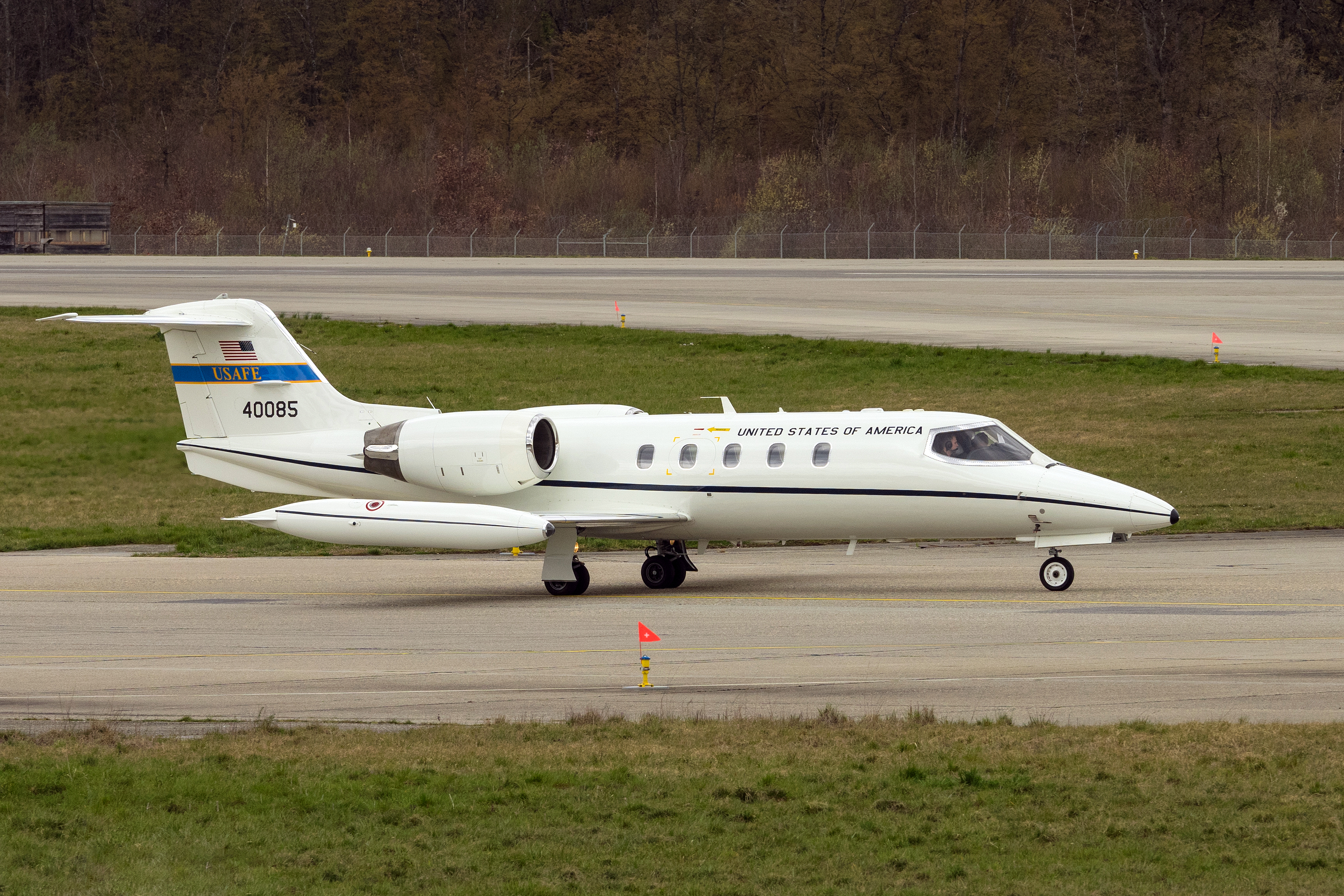 Geneva International Airport